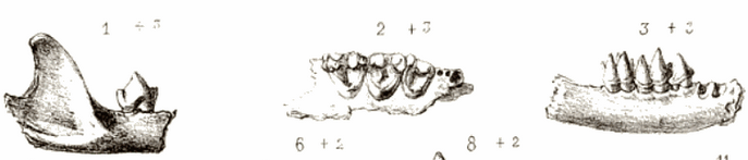 Upper and lower maxilla of the extinct horseshoe bat, Palaeonycteris robustus